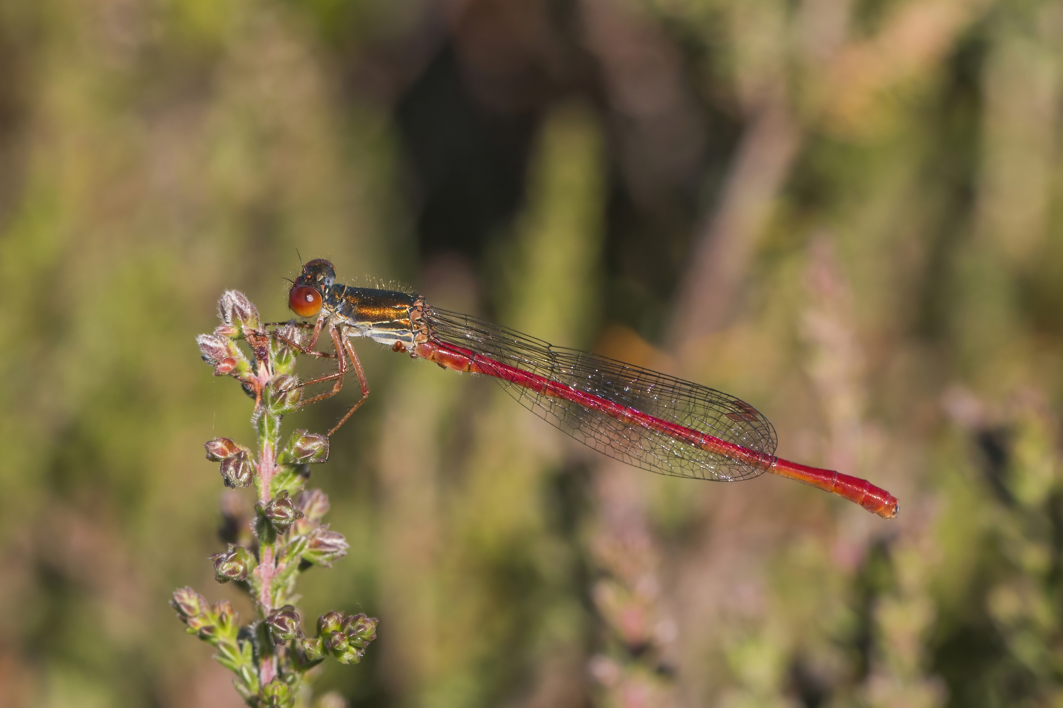 Small red damselfly (Ceriagrion tenellum) male, Crockford Stream, Hampshire